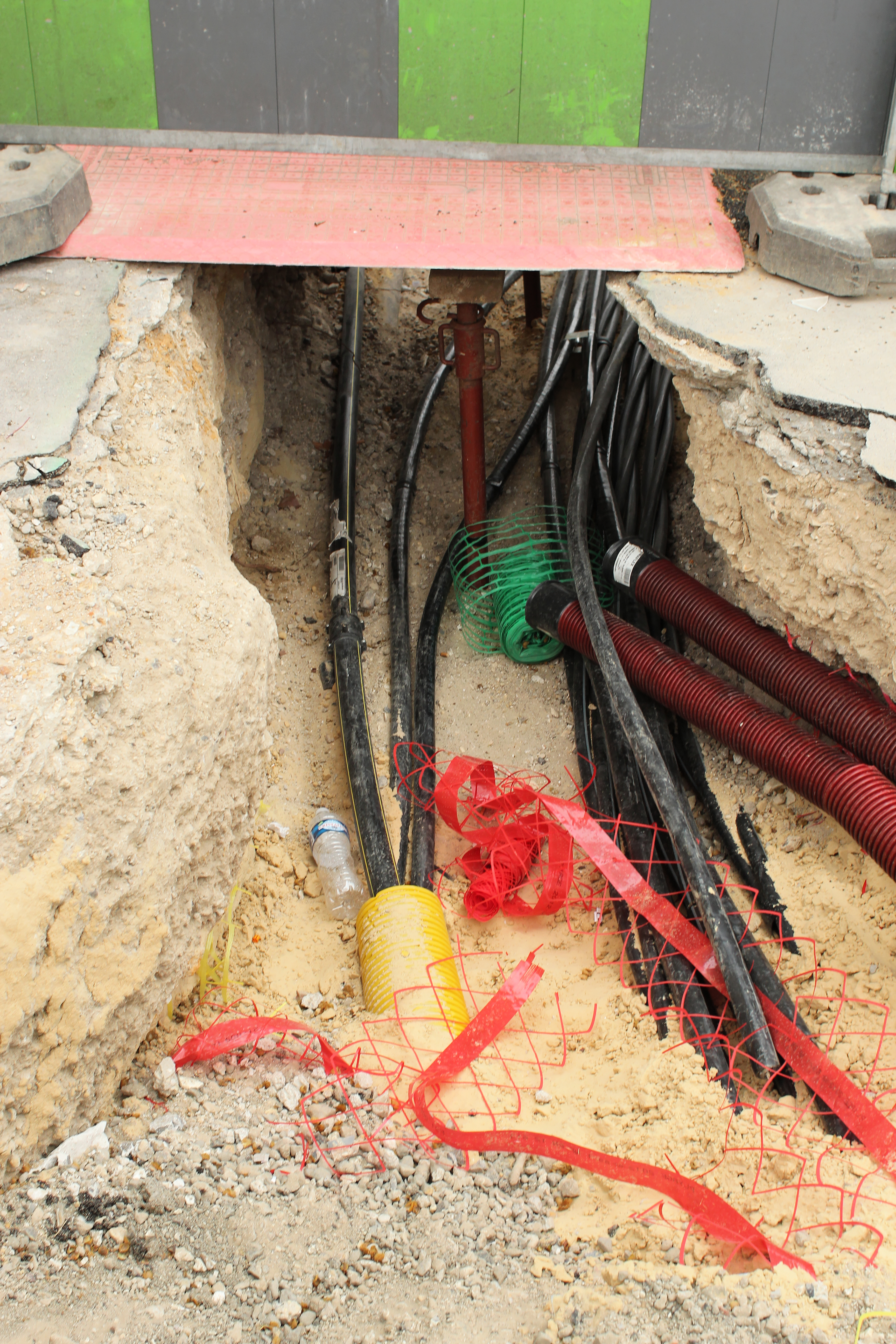 Restructuration of place de la République (Paris).